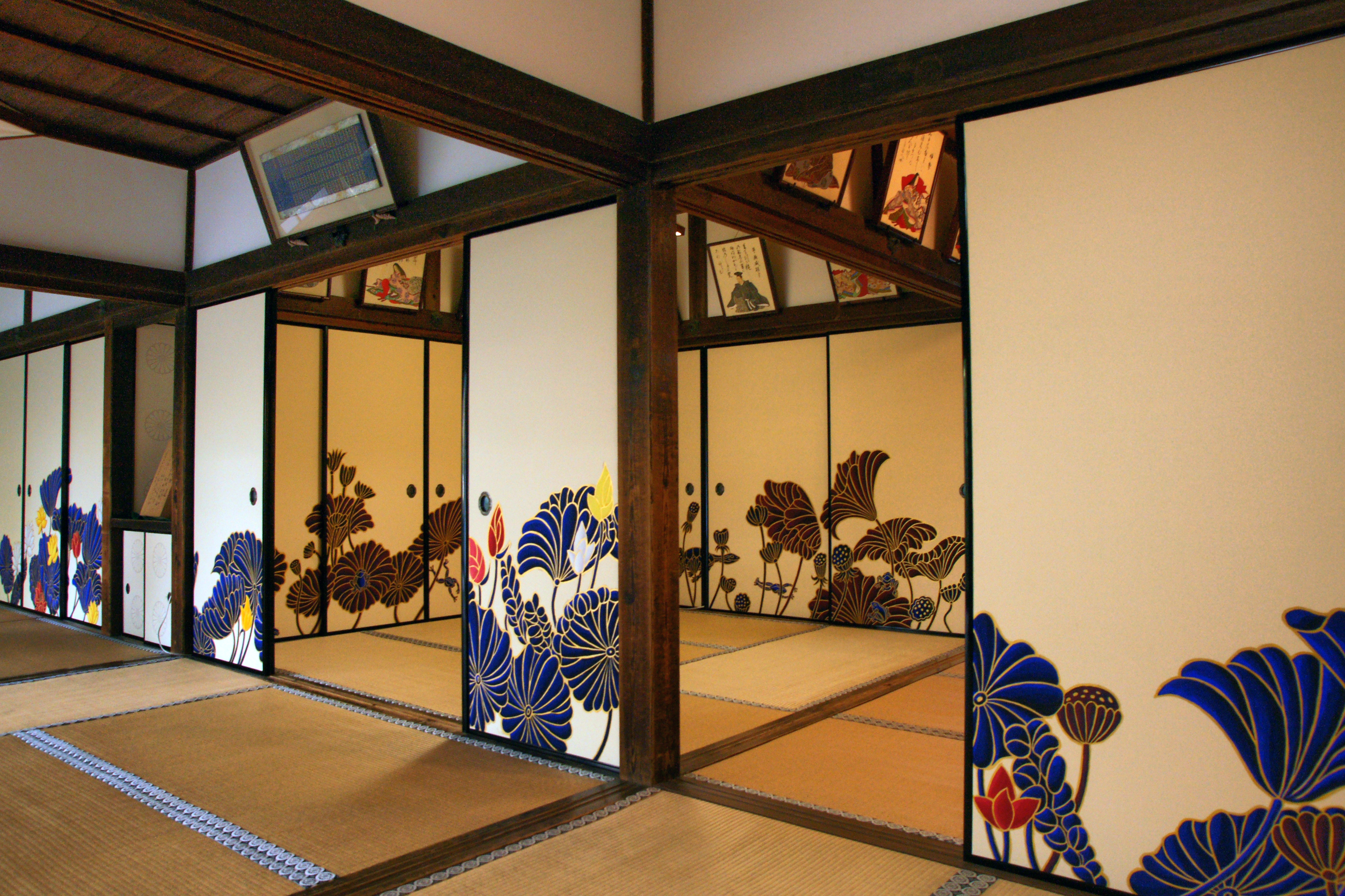 Shōren-in, Kyoto, Kyoto Prefecture, Japan